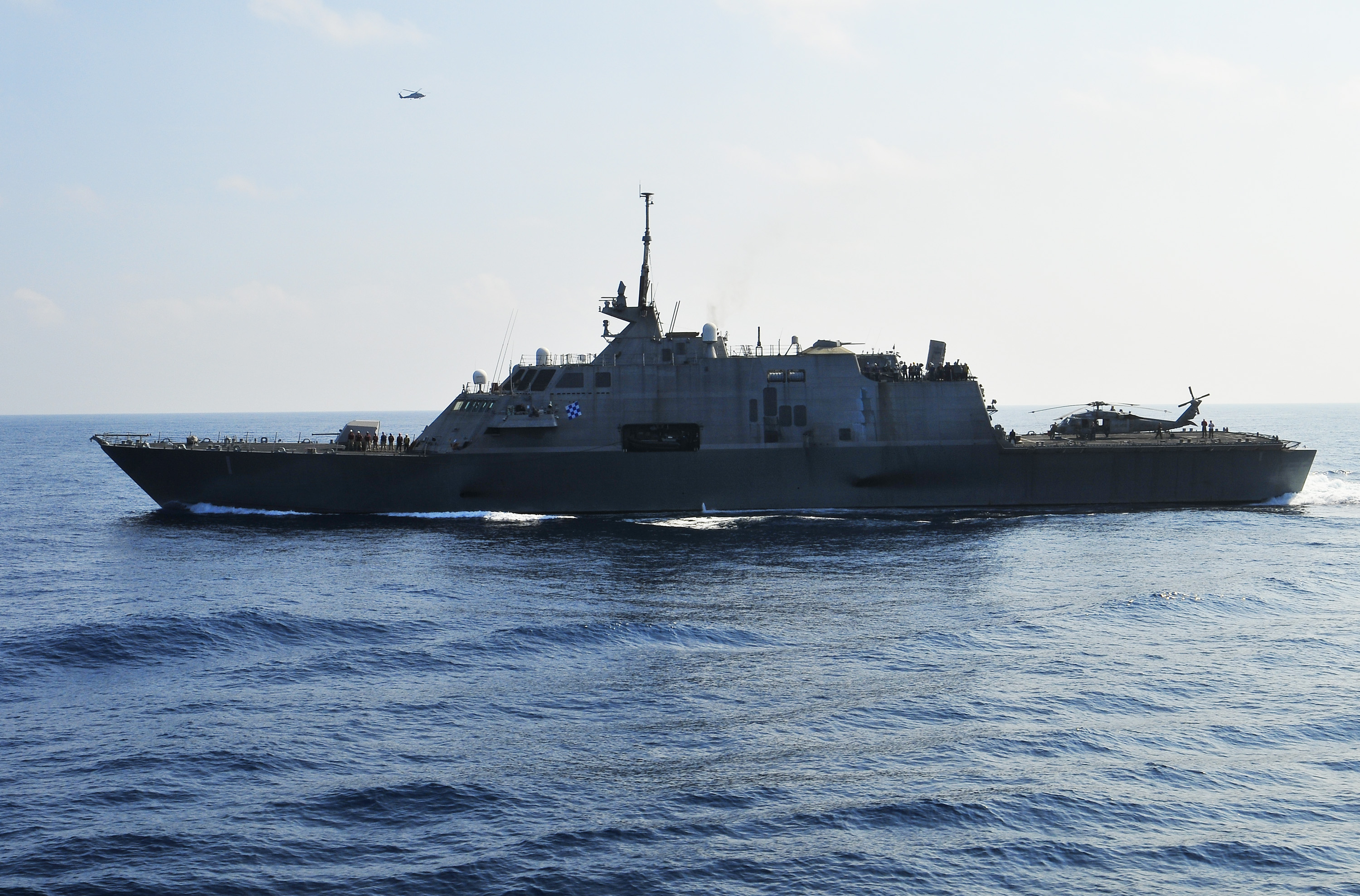 PACIFIC OCEAN (April 7, 2010) The littoral combat ship USS Freedom (LCS 1) is underway in the Pacific Ocean. Freedom is conducting counter-illicit trafficking operations. (U.S. Navy photo by Mass Communication Specialist 2nd Class Michael C. Barton/Released)